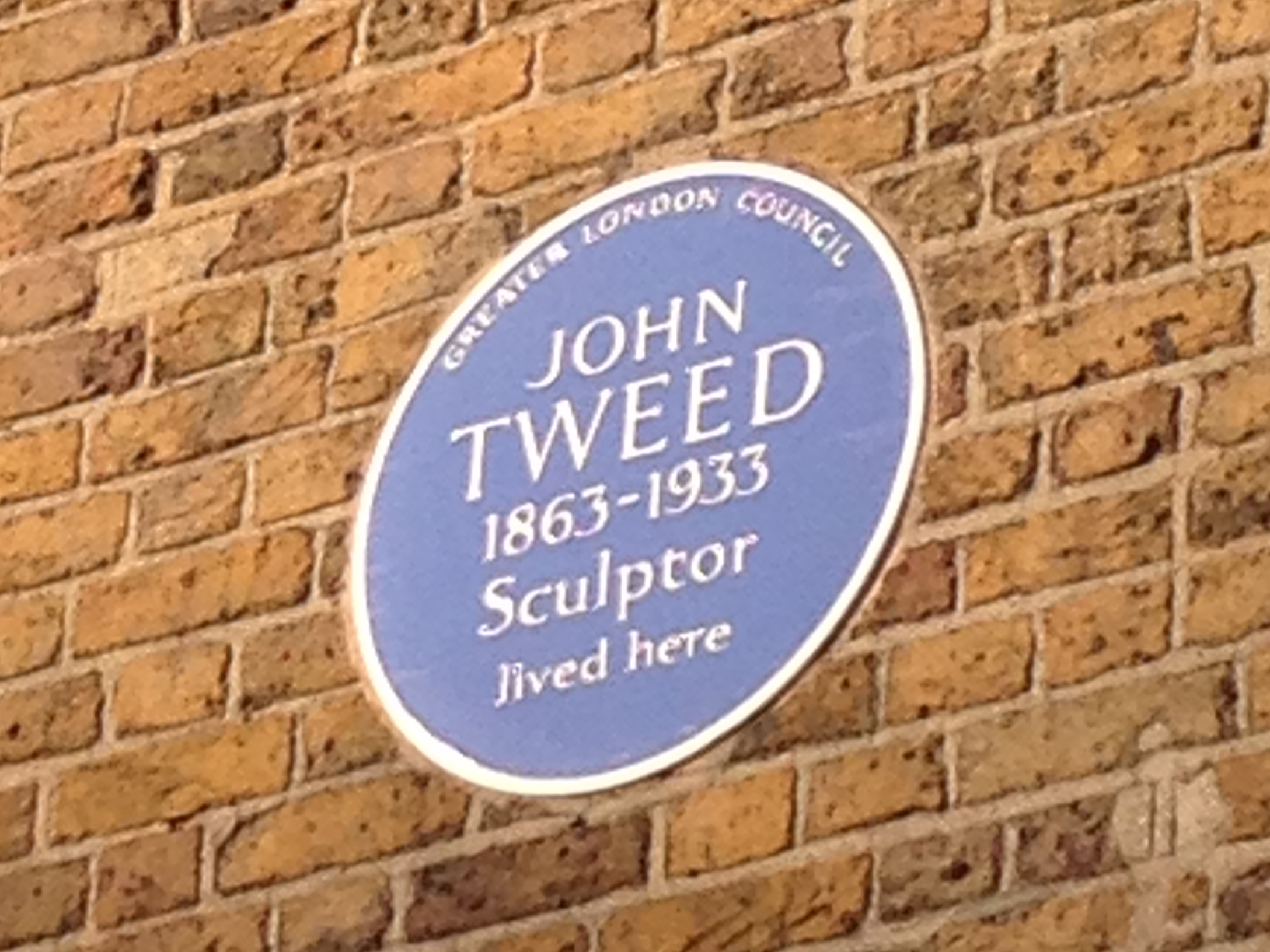 The Greater London Council blue plaque for John Tweed at 108 Cheyne Walk, Chelsea, London SW10 0DJ in the Royal Borough of Kensington and Chelsea.